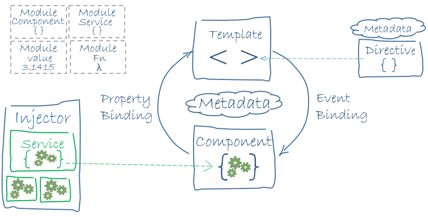 The architecture diagram identifies the eight main building blocks of an Angular 2 application: Modules Components Templates Metadata Data binding Directives Services Dependency injection